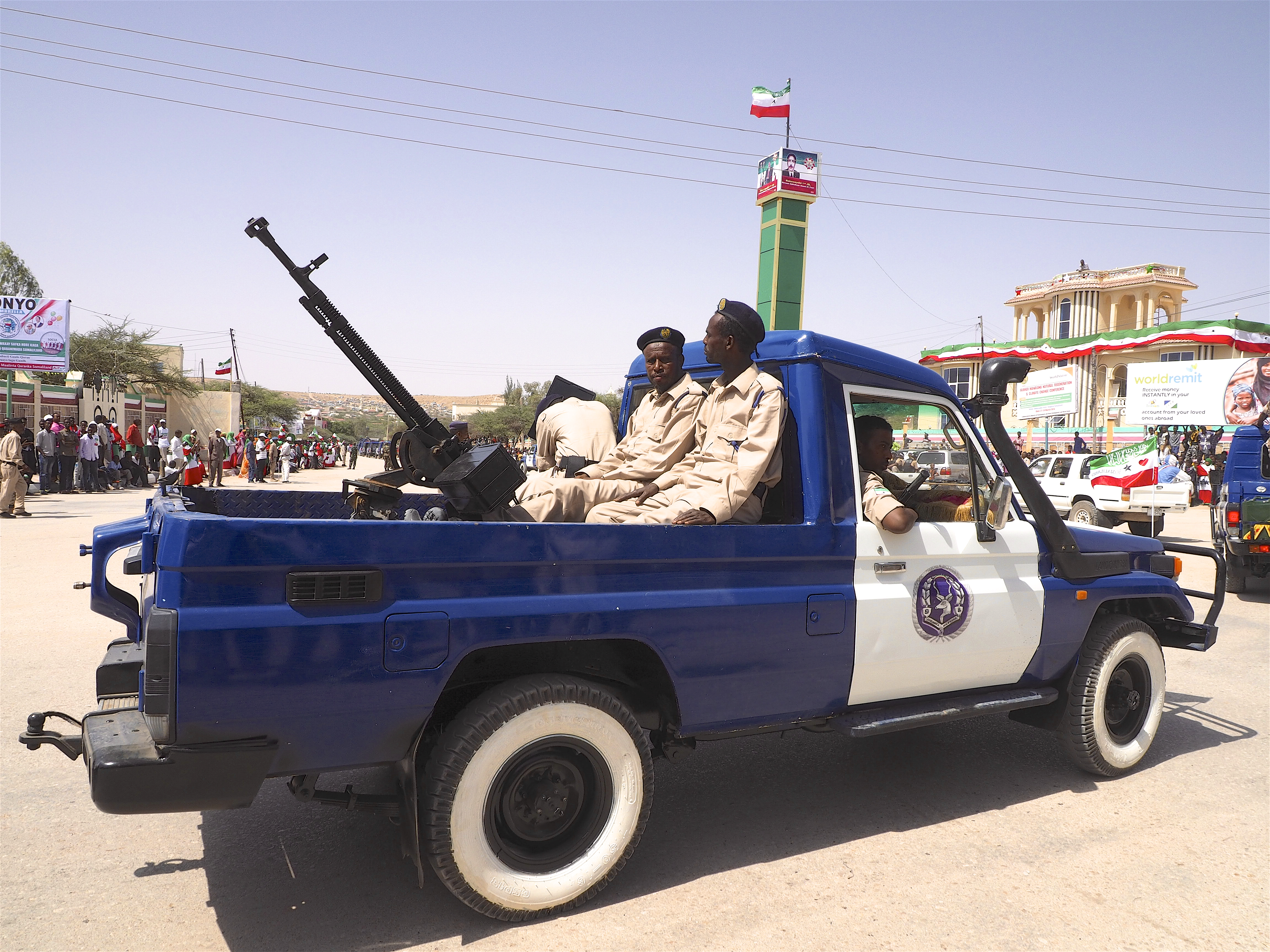 Scenes fro Somaliland Independence Day